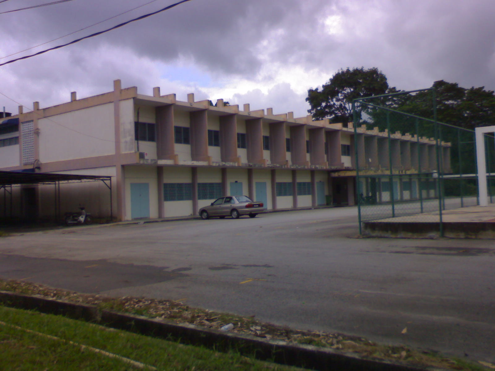 This is Form Six Block of Chung Ling (National Type) High School.